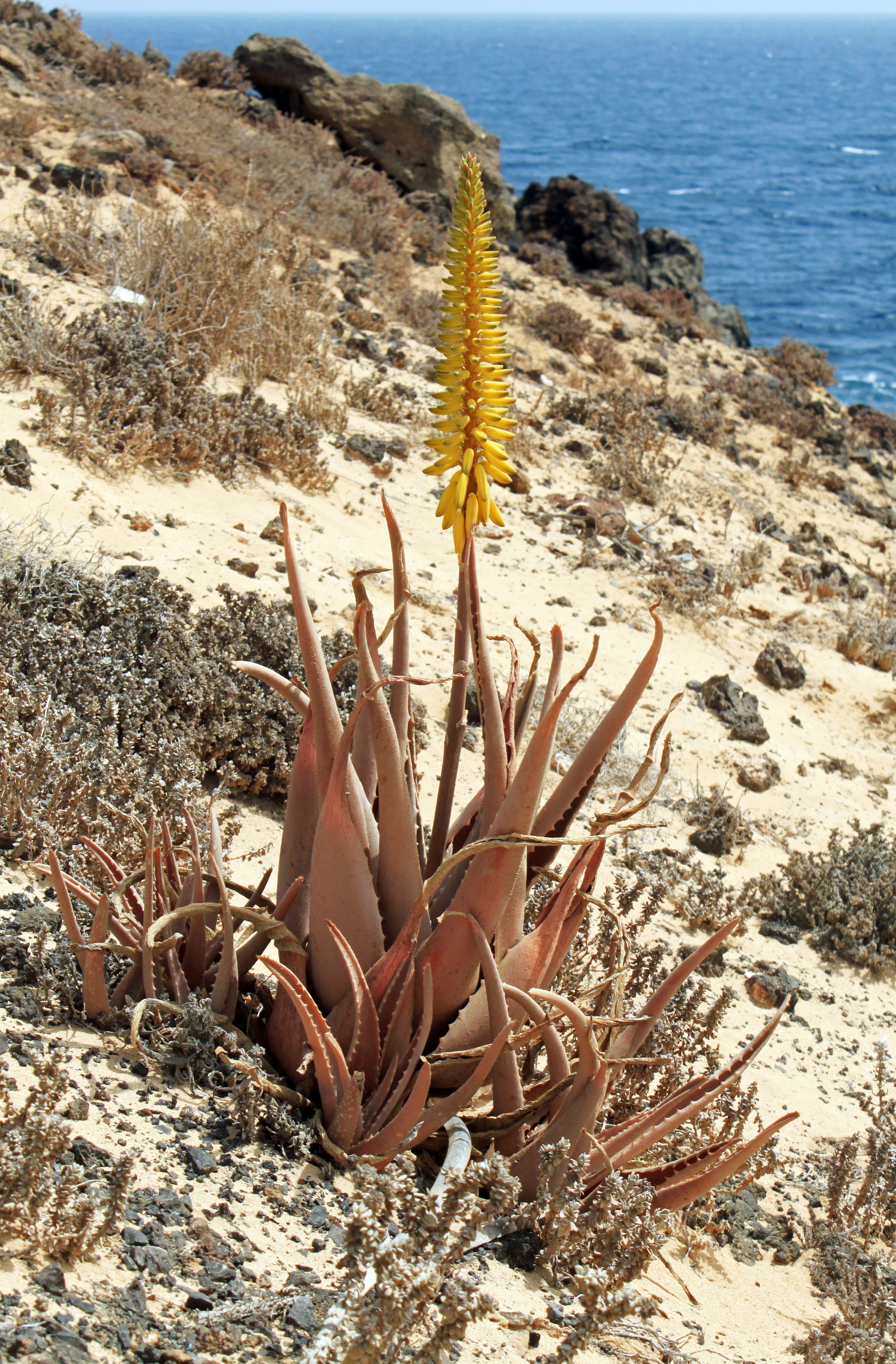 Aloe Vera; Lanzarote near Mala, Canary Islands, Spain.